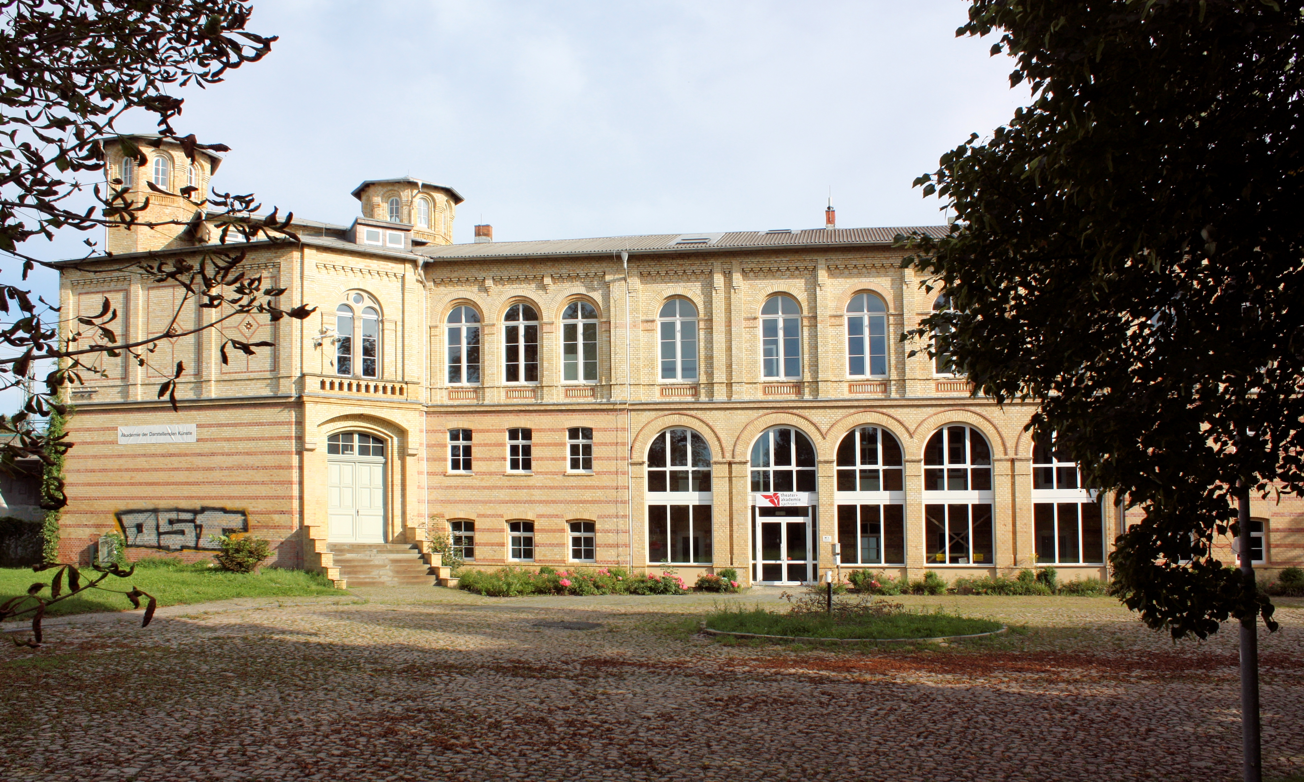 Upper station, since 2007 home of the Theatre Academy Saxony, photo taken 08/2014